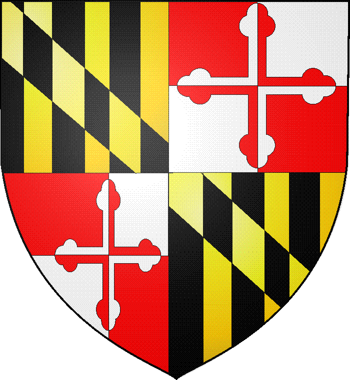 Calvert, baron of Baltimore COA Blazon: Quarterly 1st and 4th paly of 6 Or and Sable a bend counterchanged; 2nd and 3rd quarterly are Argent and Gules a cross bottony counterchanged.